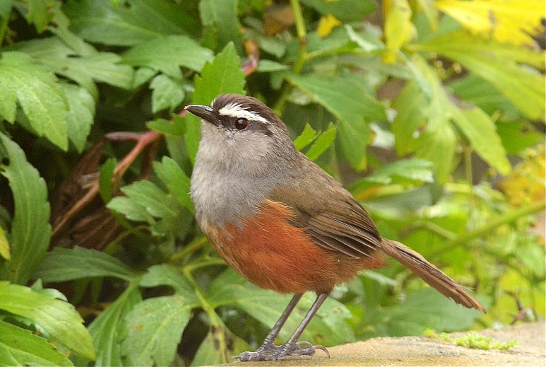 This image was shot in Meghamalai, Tamil Nadu, India